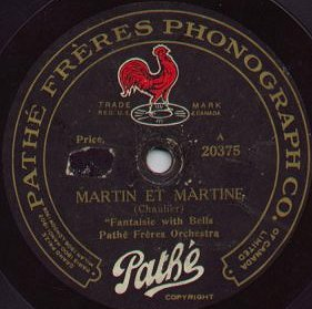 Pathé Records gramophone record label